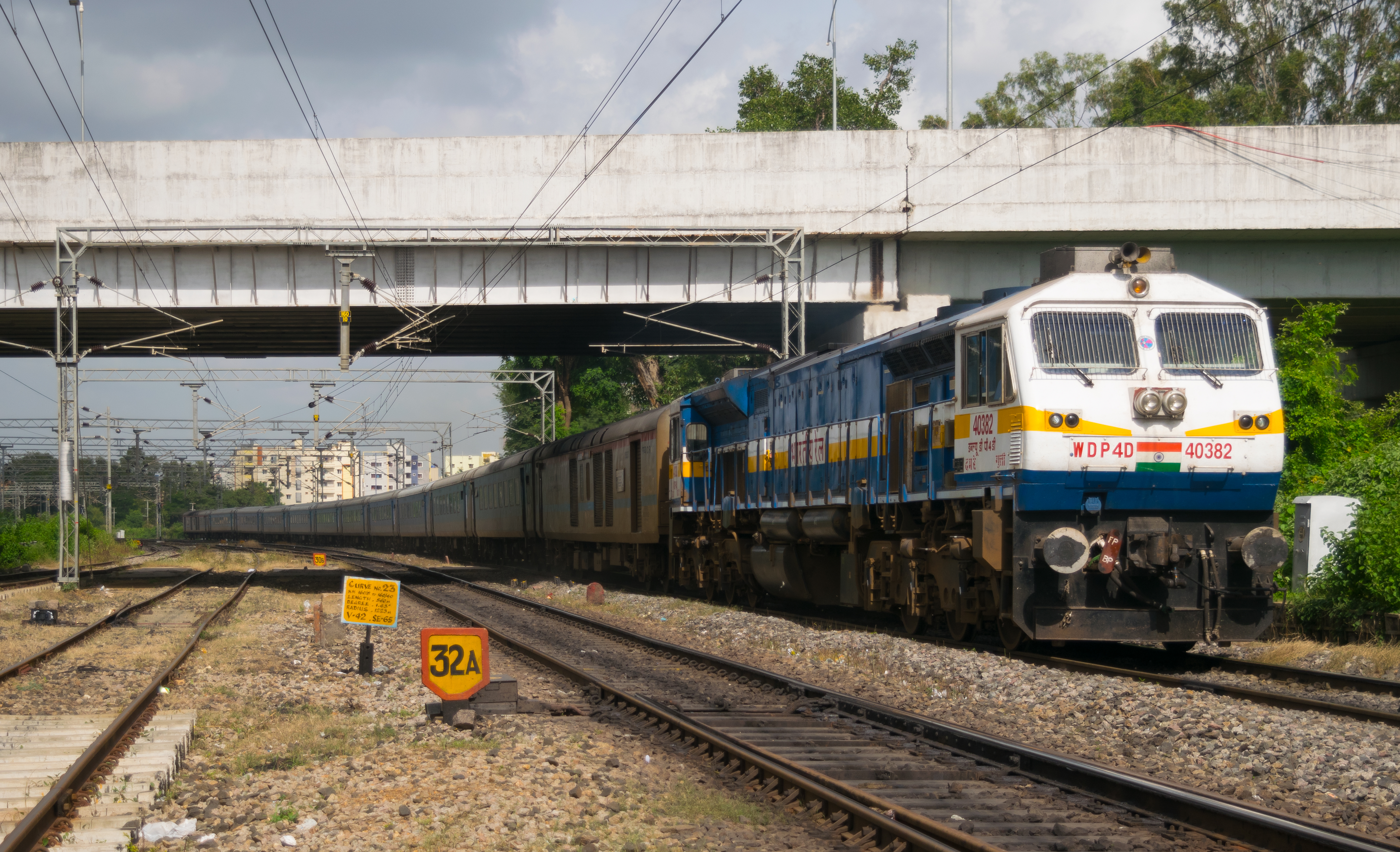 A WDP4D of Gooty Loco Shed hauling Secunderabad to Pune Shatabdi express near Lingampally Railway Station